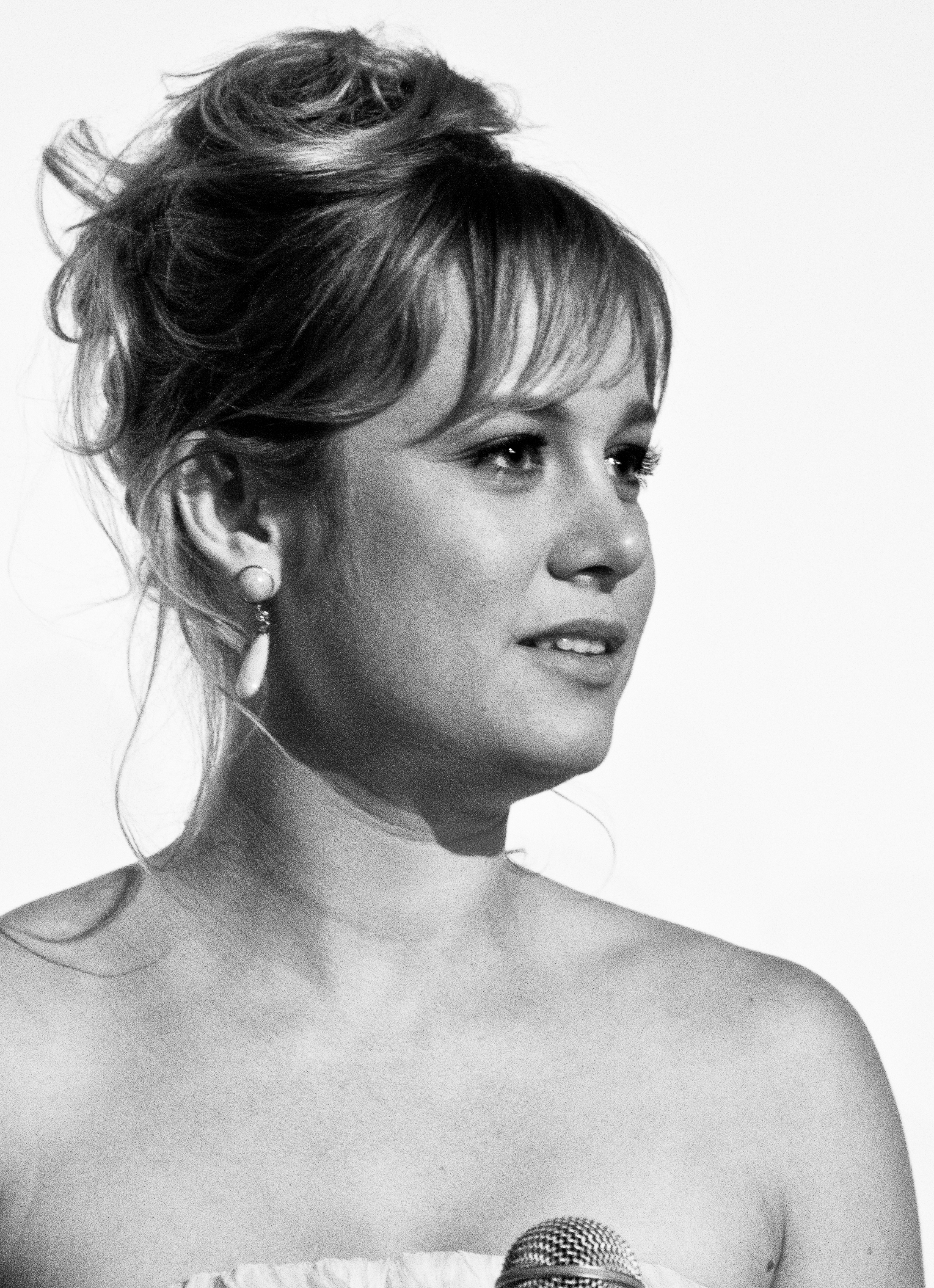 Ben Foster and Brie Larson at the 2011 TIFF premiere of Rampart